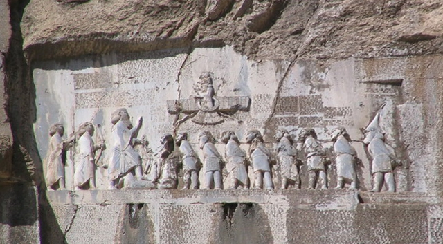 Darius I the Great's inscription. Possibly an influence in the stele series for the Ptolemies, III, IV, and V-(V for the Rosetta Stone); Ptolemy II also had a Victory Stele, though not bilingual.